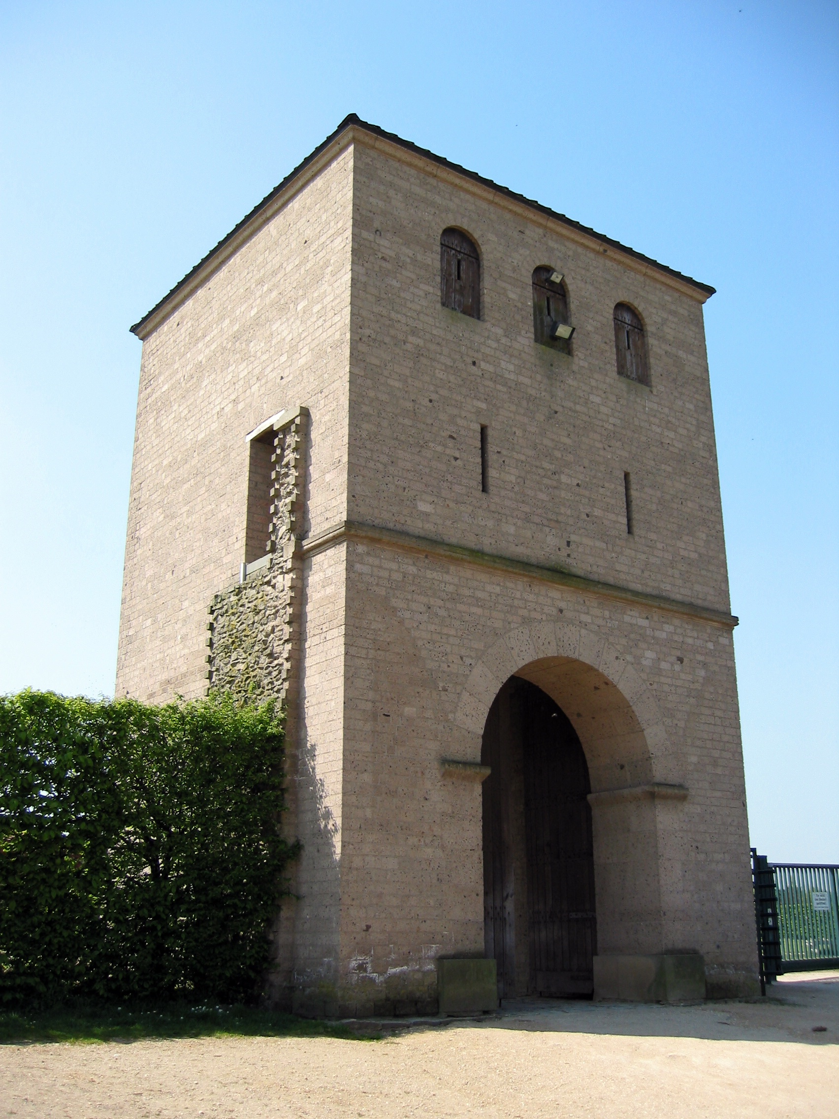 Photo taken April 23, 2005, by Magnus Manske, with expressed verbal permission. Colors/contrast enhanced with Picasa.